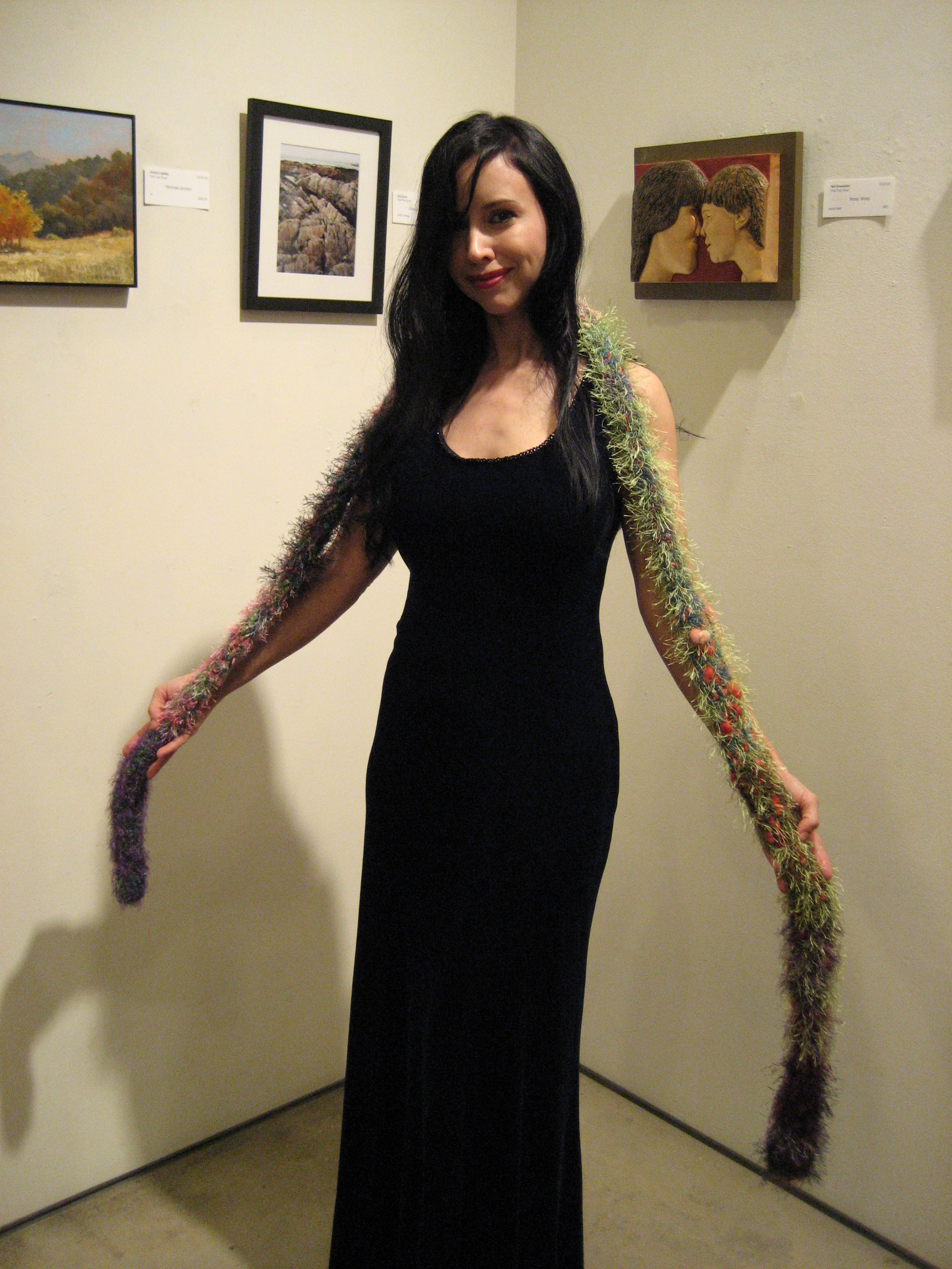 Young woman at San Diego art gallery models a knitted boa. Photograph by Patty Mooney, Crystal Pyramid Productions, San Diego, California.